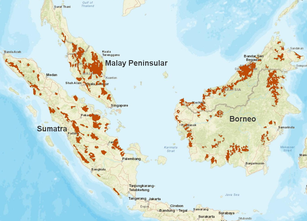 Distribution of Flat-headed Cat, 2015